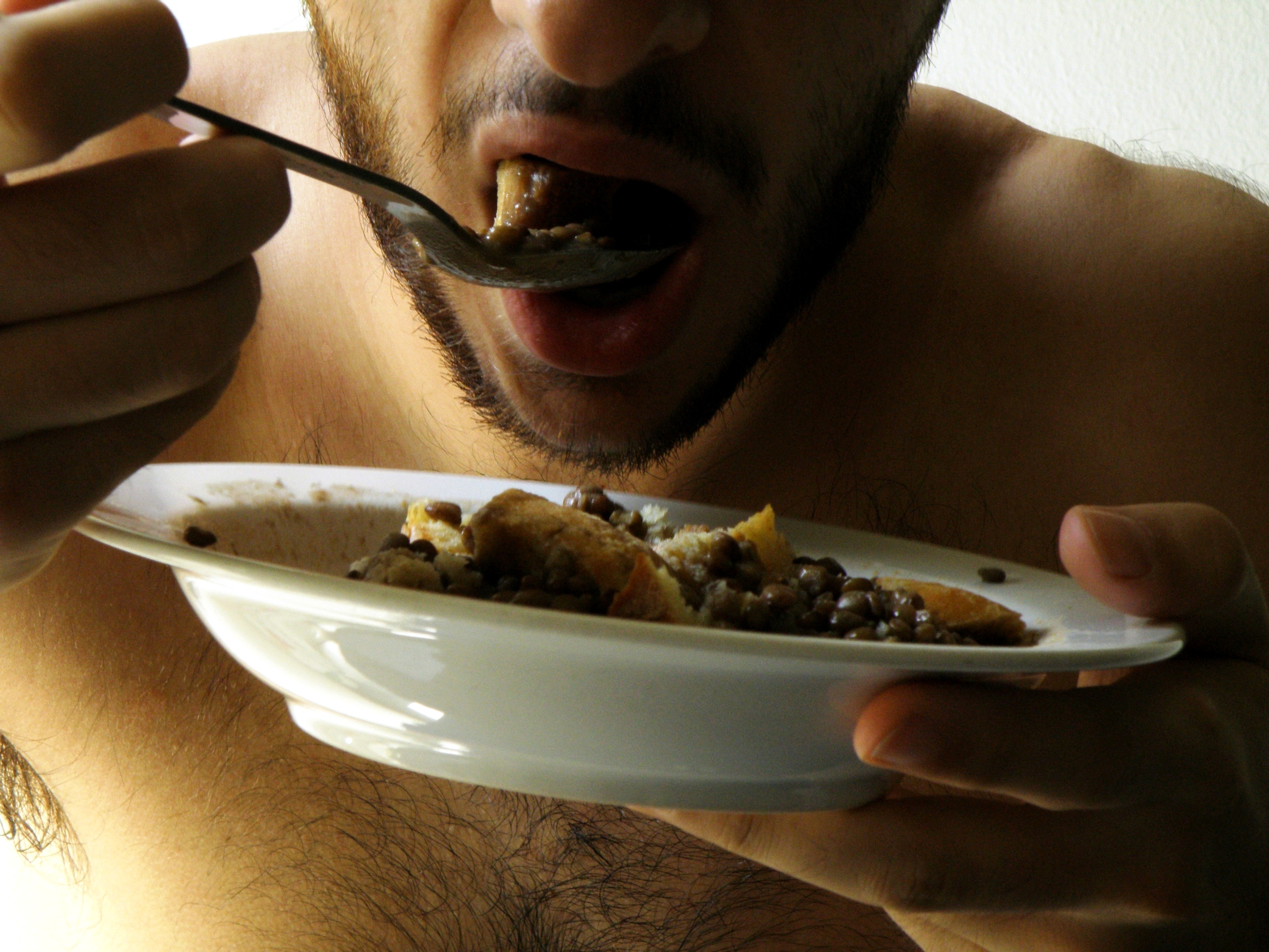 A hungry man is eating his soup of lentils and bread with his spoon.